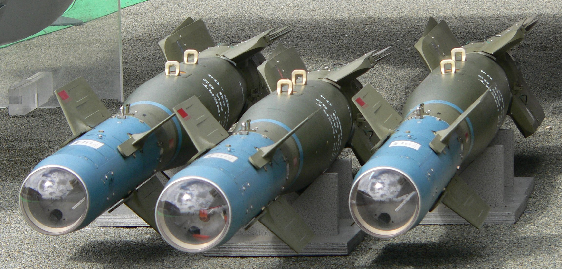 GBU-22 bombs